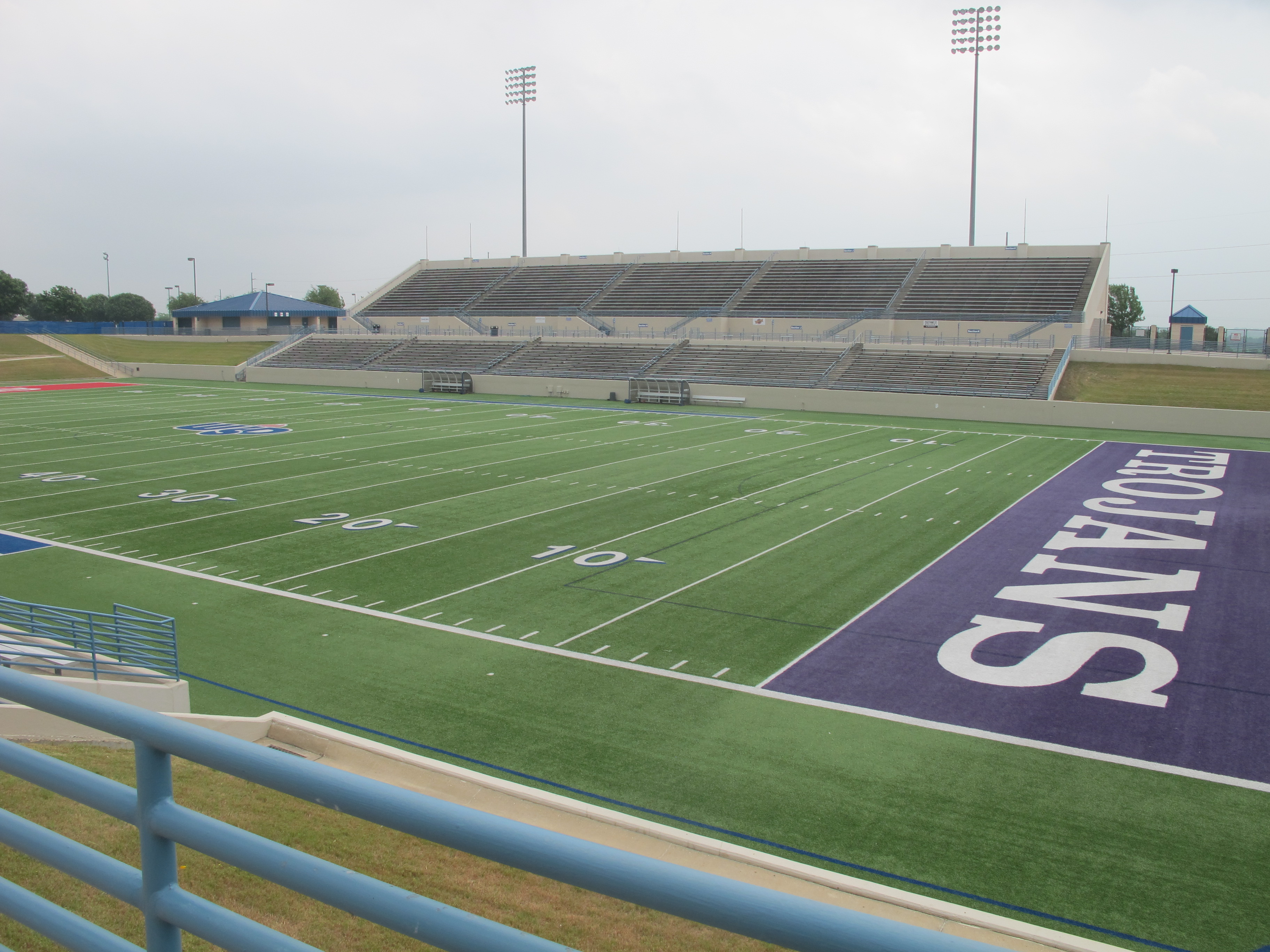 Waco ISD Stadium's Vistor Stand